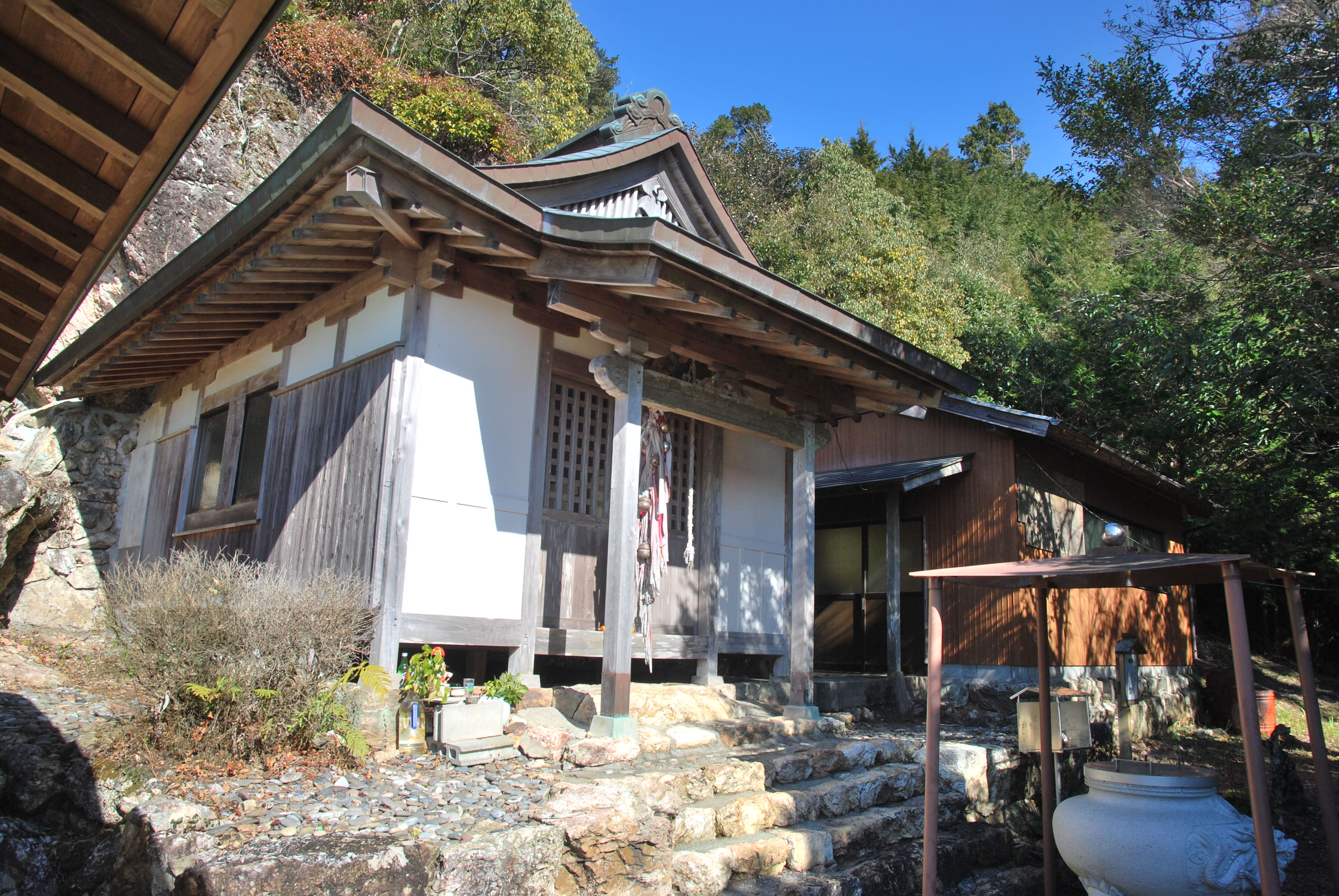 Iwaya-ji Kannon-dō